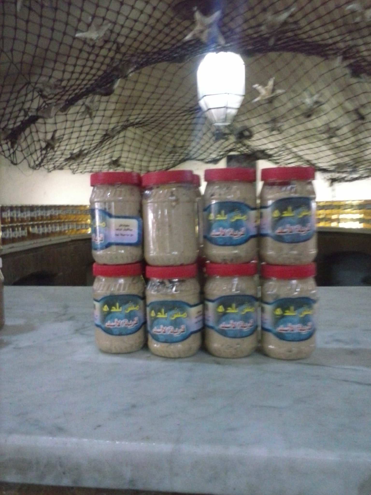 Preserved Mesh in the market. This is an image of food from Egypt